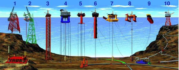 Types of Offshore Oil and Gas Structures 1) & 2) Conventional fixed platforms (deepest: Shell’s Bullwinkle in 1991 at 412 m/1,353 ft GOM) 3) Compliant tower (deepest: ChevronTexaco’s Petronius in 1998 at 534 m /1,754 ft GOM) 4) & 5) Vertically moored tension leg and mini-tension leg platform (deepest: ConocoPhillips’ Magnolia in 2004 1,425 m/4,674 ft GOM) 6) Spar (deepest: Dominion’s Devils Tower in 2004, 1,710 m/5,610 ft GOM) 7) & 8) Semi-submersibles (deepest: Shell’s NaKika in 2003, 1920 m/6,300 ft GOM) 9) Floating production, storage, and offloading facility (deepest: 2005, 1,345 m/4,429 ft Brazil) 10) Sub-sea completion and tie-back to host facility (deepest: Shell’s Coulomb tie to NaKika 2004, 2,307 m/ 7,570 ft) (Numbered from left to right; all records from 2005 data)